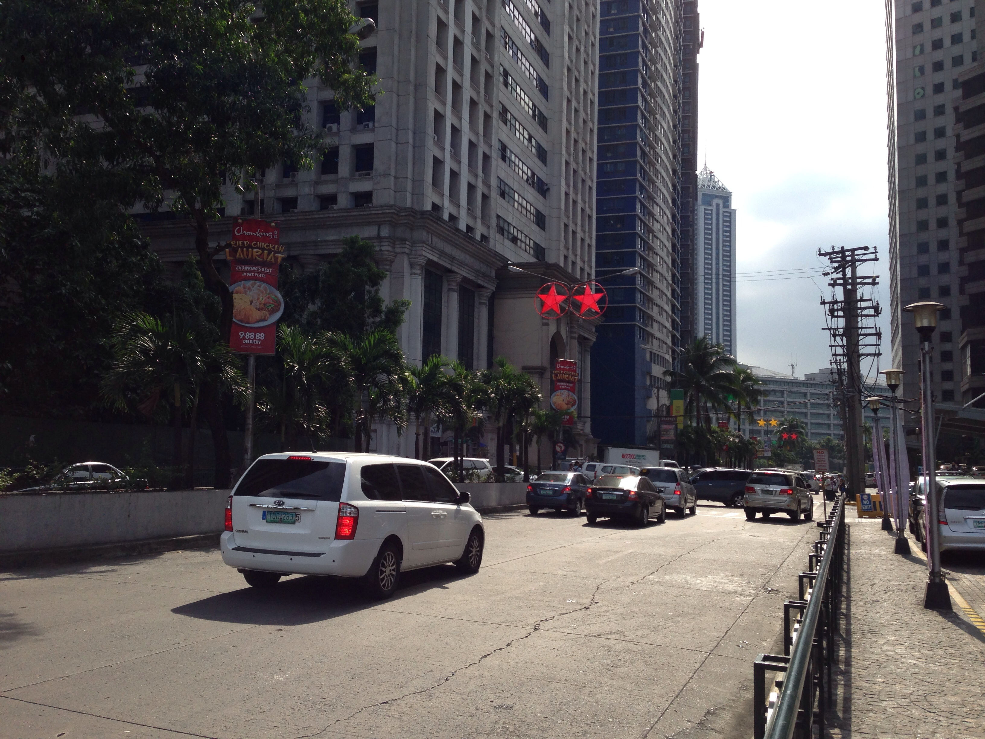 ADB Avenue, Ortigas Center, Manila, Philippines